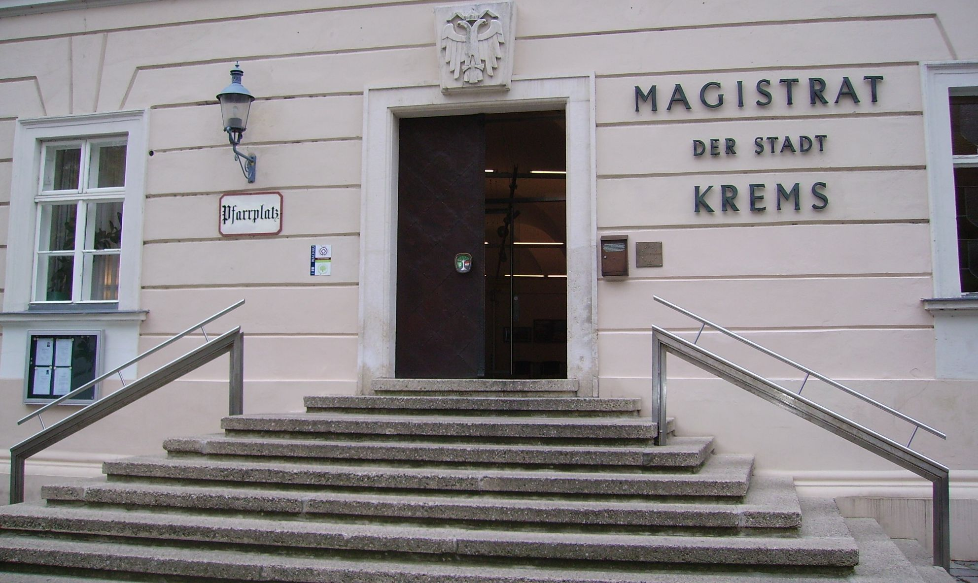 Krems an der Donau, Austria